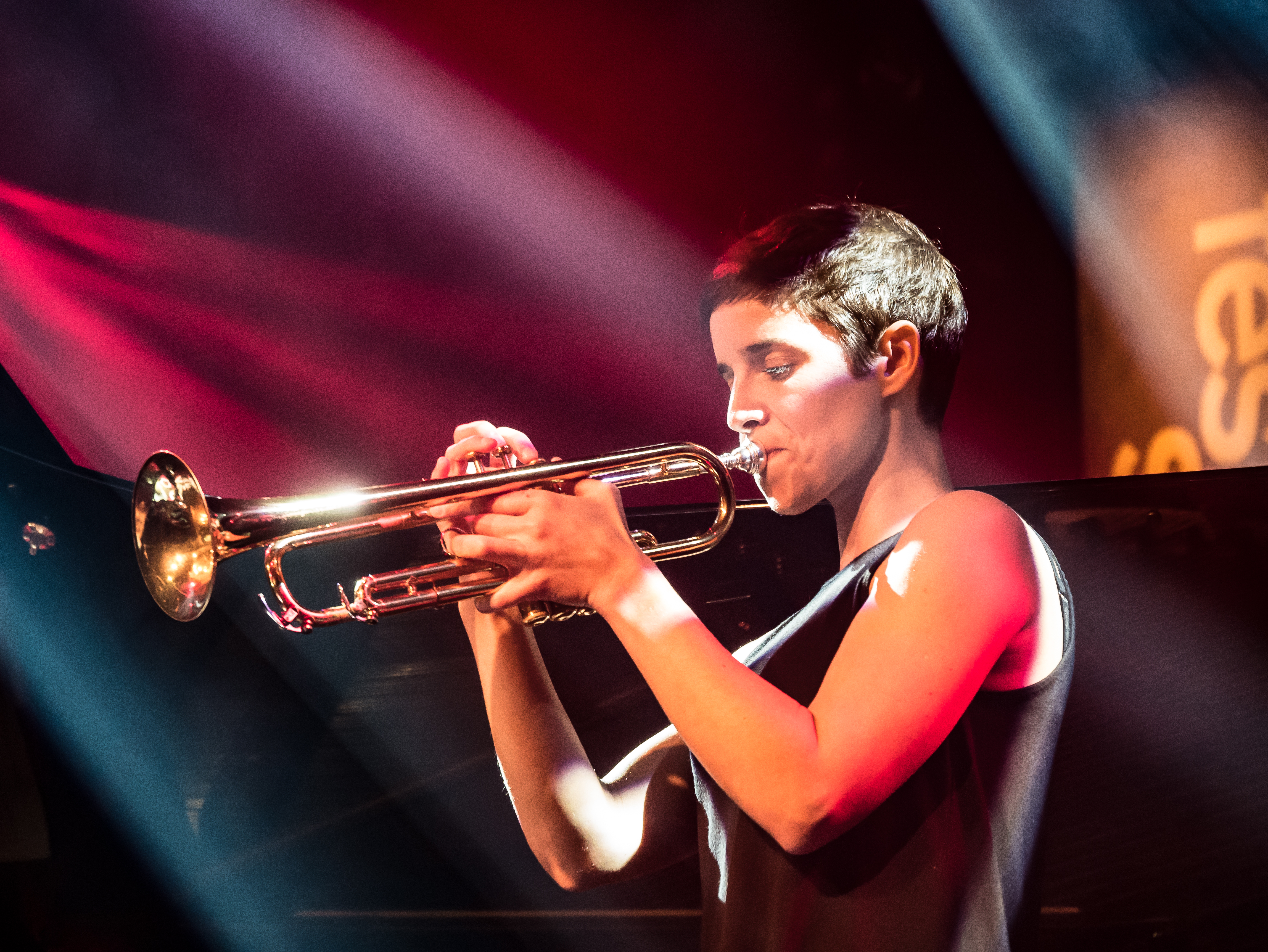 Portuguese trumpeter Susana Santos Silva at the Moers Festival 2016